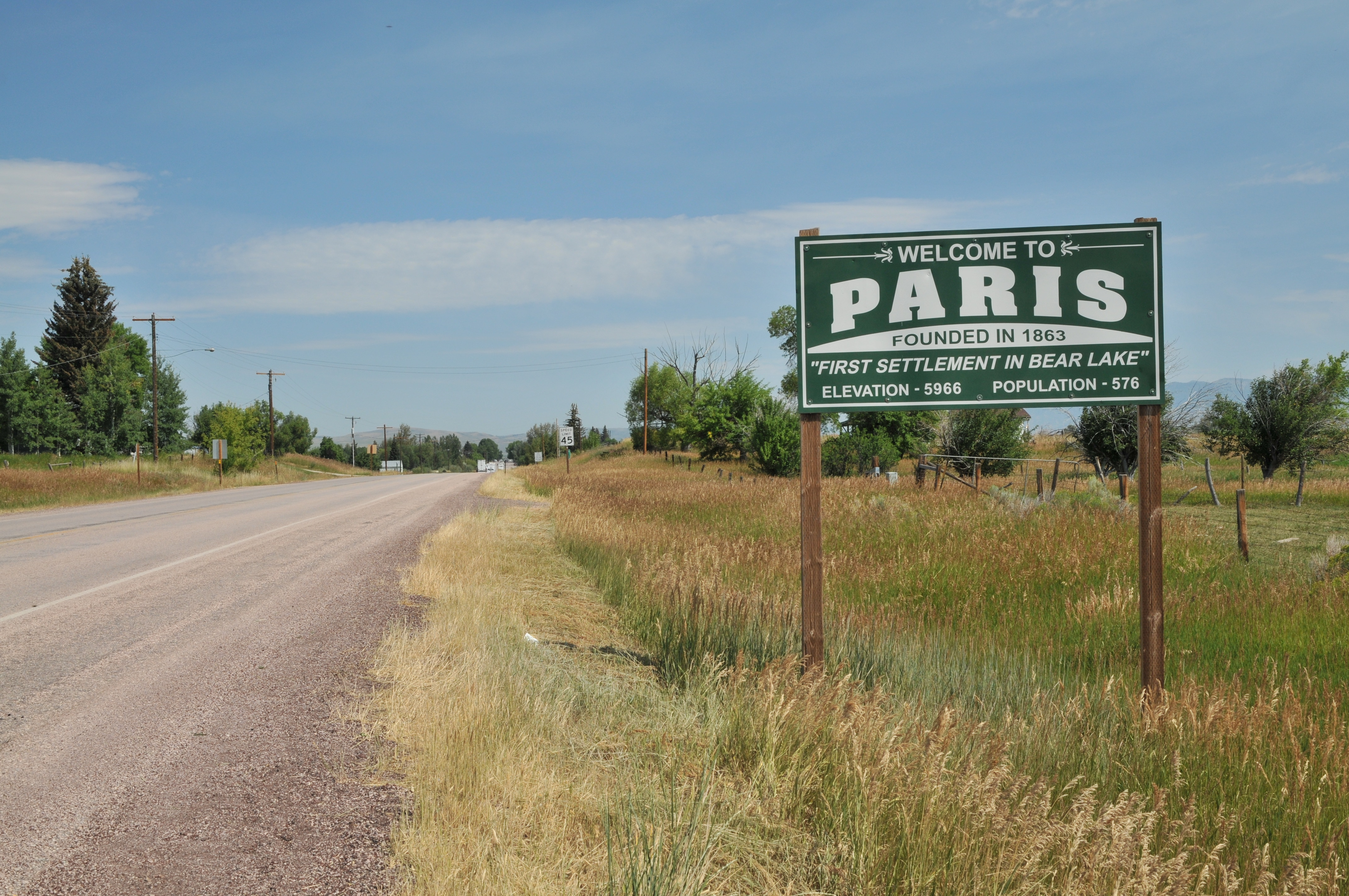 Bear Lake County, Idaho